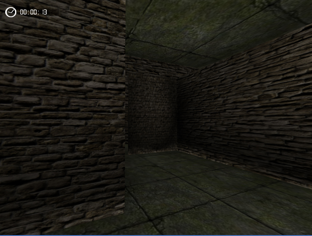 Screenshot from a project using Irrlicht Engine which shows using lightmaps alongside with vertex lighting to create professional look and dynamic lighting at the same time.